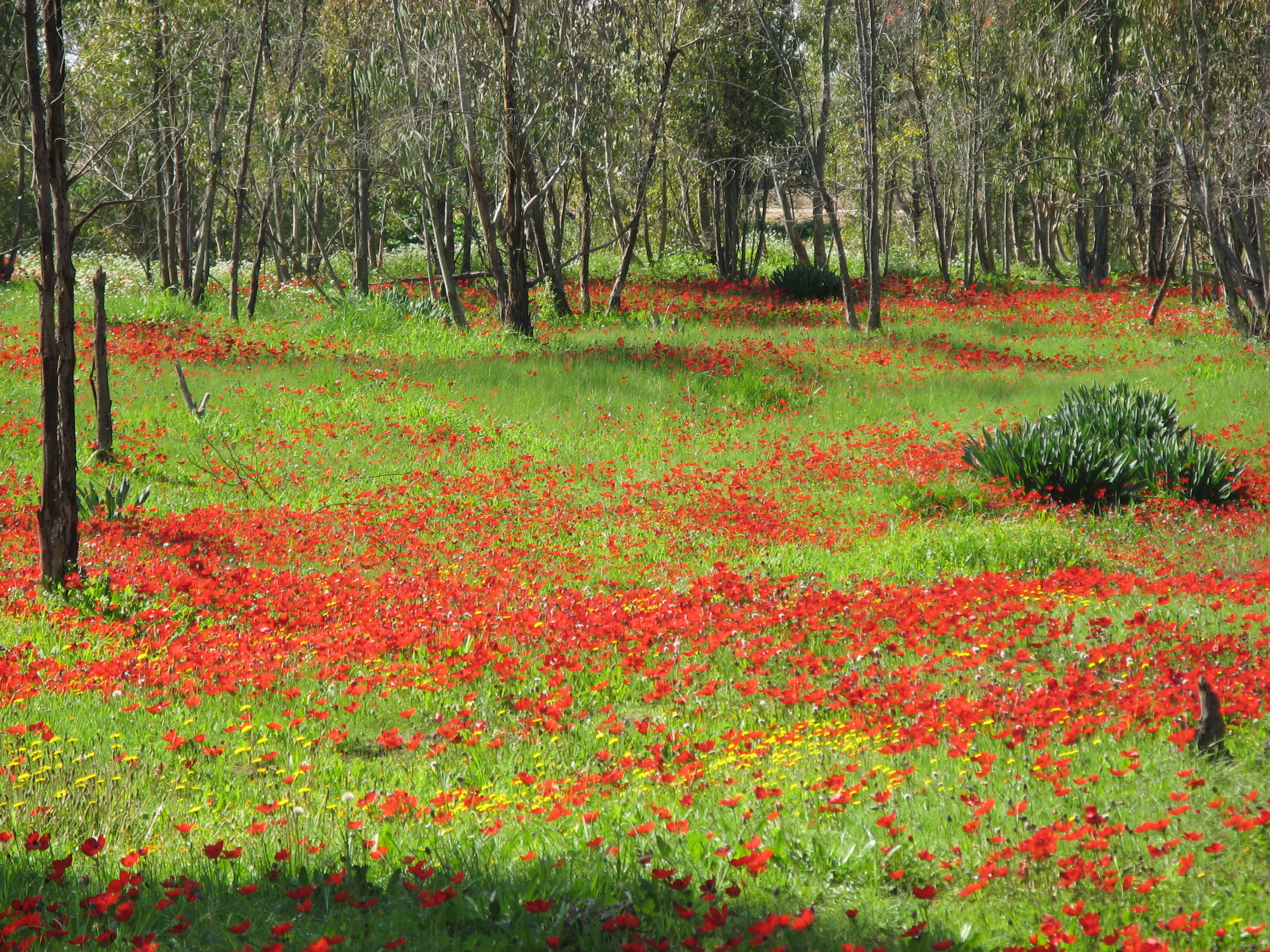 red blossom in israel